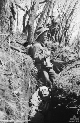 AWM Caption: Hill Salmon, Korea, 1951-04-16. A member of C Company, 3rd Battalion, The Royal Australian Regiment (3RAR), leans against the rear wall of a trench after the company's capture of Hill Salmon from Chinese troops. The butt of the soldier's .303 rifle is visible as the weapon rests on the parapet of the trench, pointing outwards in readiness for any attack. (Donor I. Robertson).